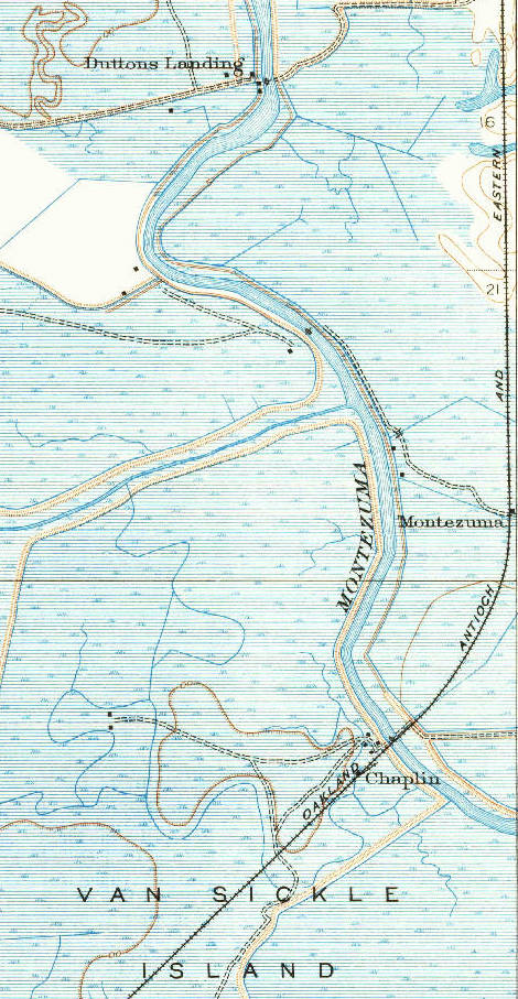 Montezuma stop in 1918, north of Collinsville, CA